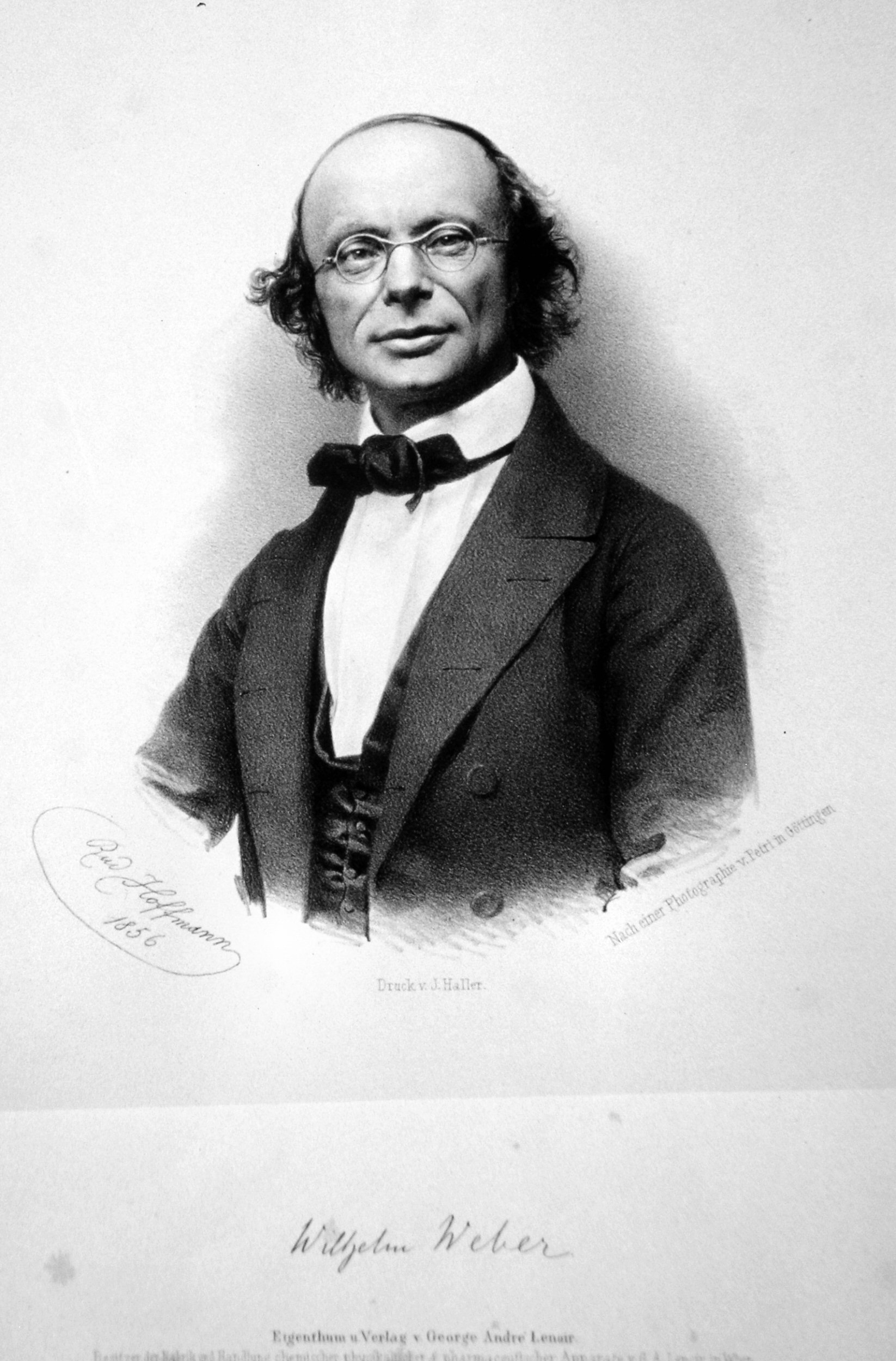 Wilhelm Eduard Weber (1804–1891), German physicist. Lithography by Rudolf Hoffmann, 1856. After a Photo by Petri (Göttingen). From Gallerie ausgezeichneter Naturforscher (Vienna